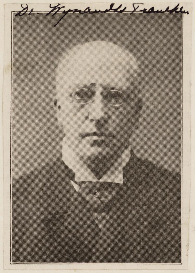 C.J. Wijnaendts Francken (1863-1944). Photo taken around 1910-1920? Photograph by unknown author; collection Letterkundig Museum (Den Haag)